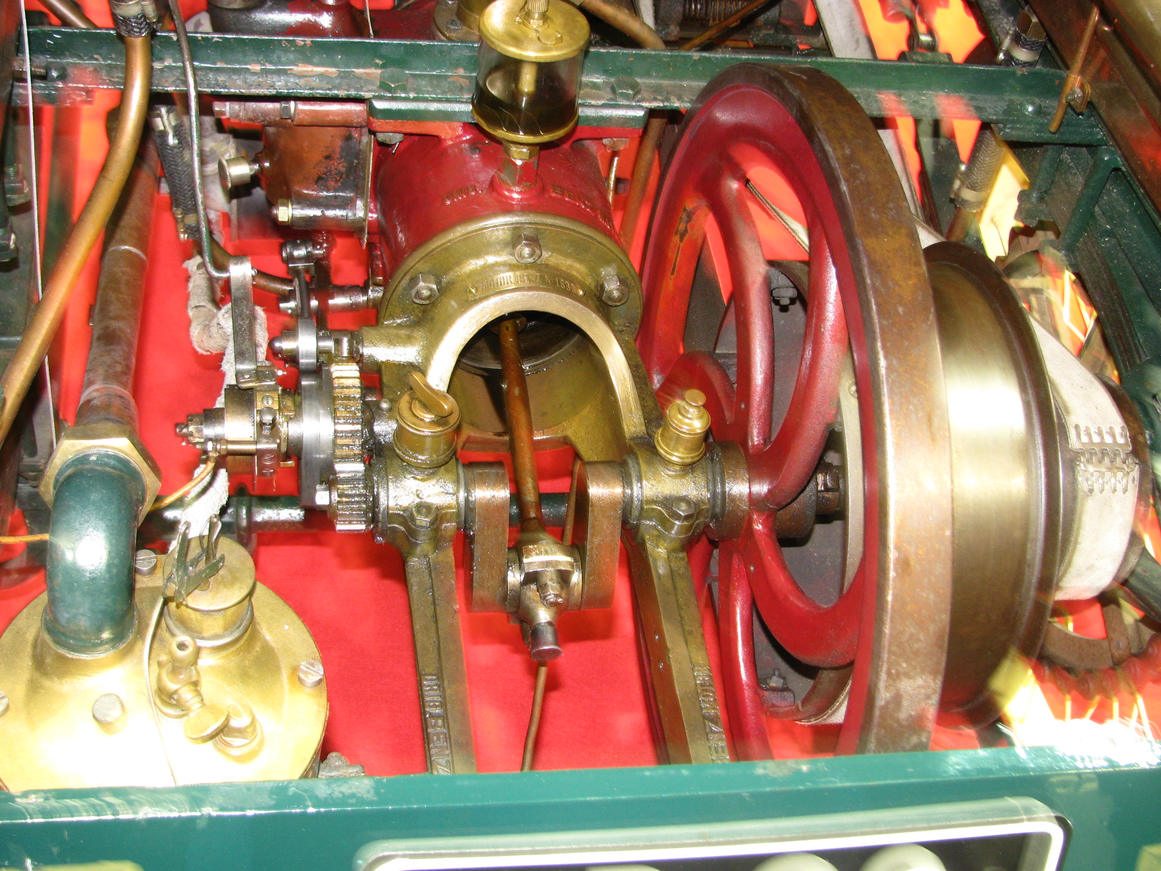 Engine of Georges Richard 1898. Classic Motor Show in Lahti, Finland.